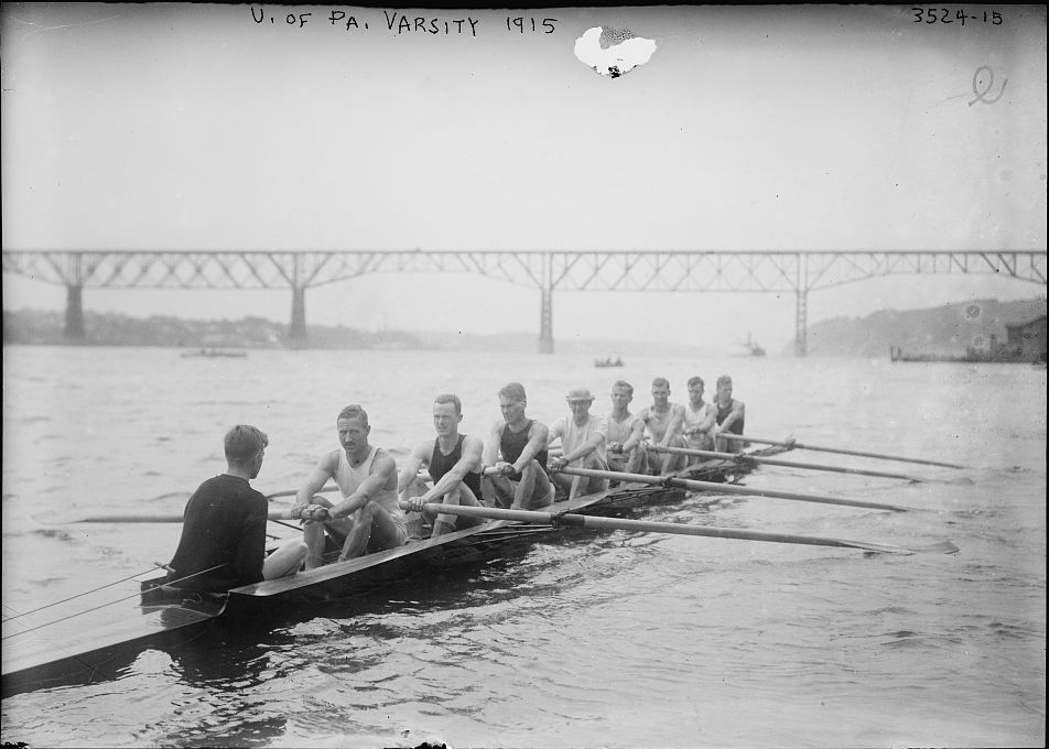 Bain News Service,, publisher. University of Pennsylvania varsity crew on the Hudson River, 1915, Poughkeepsie Railroad Bridge in background. 1915. 1 negative : glass ; 5 x 7 in. or smaller. Notes: Title from unverified data provided by the Bain News Service on the negatives or caption cards. Forms part of: George Grantham Bain Collection (Library of Congress). Format: Glass negatives. Repository: Library of Congress, Prints and Photographs Division, Washington, D.C. 20540 USA, General information about the Bain Collection is available at Higher resolution image is available (Persistent URL): Call Number: LC-B2- 3524-15